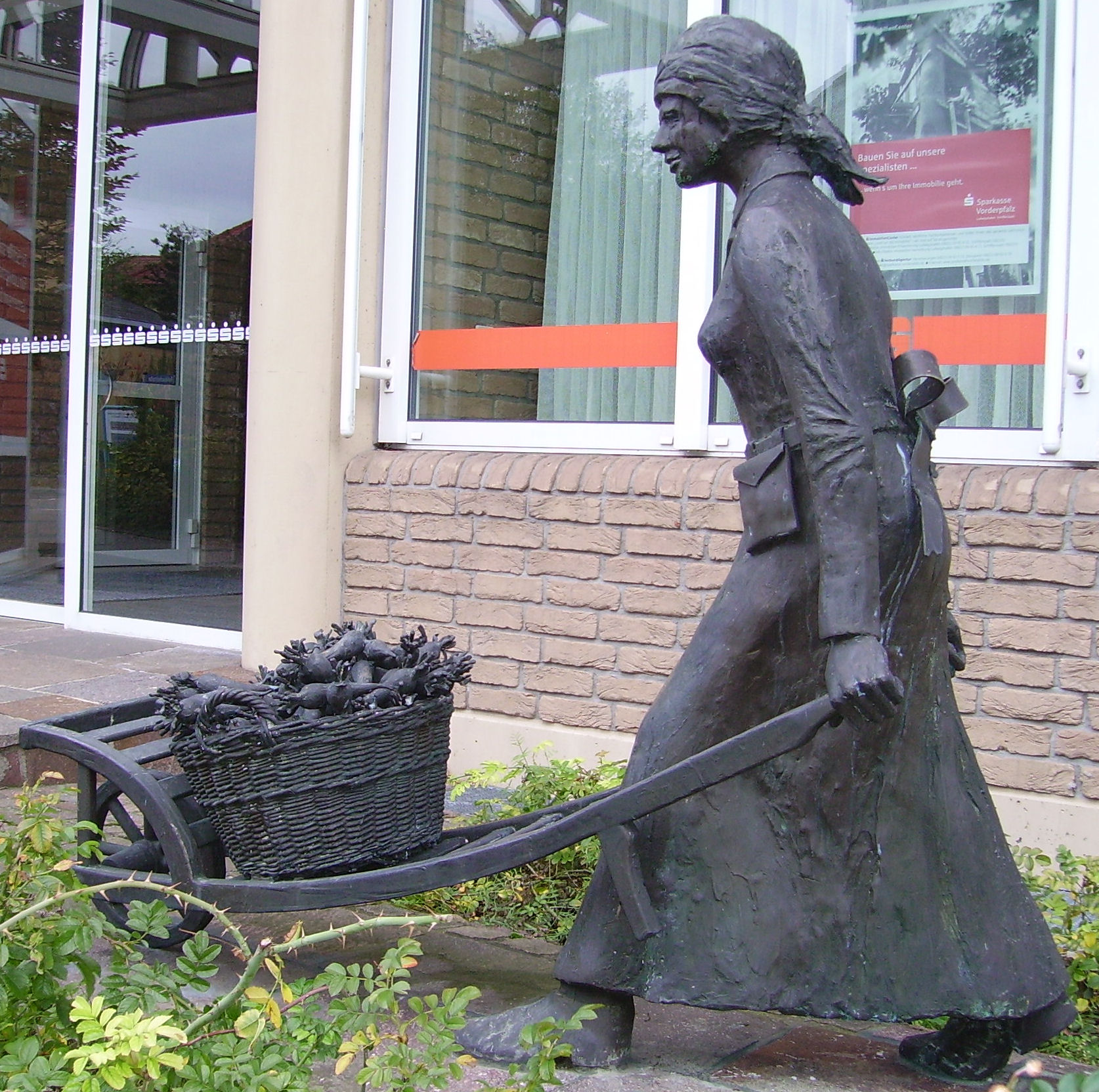 view of Schifferstadt, Germany